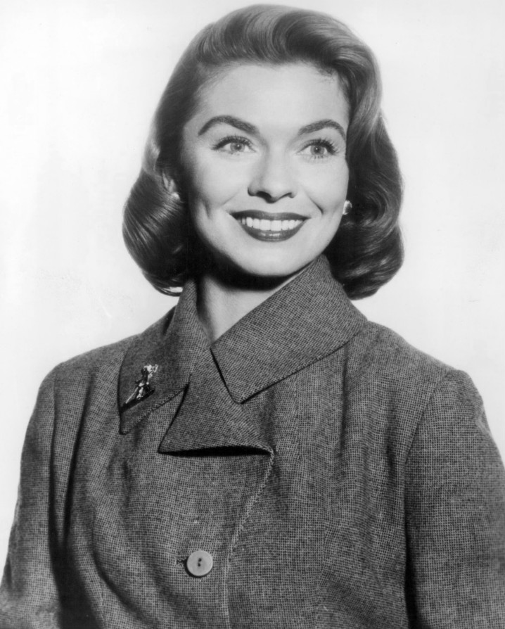 Publicity photo of Joanne Dru for her appearance on the television program Goodyear Theater.